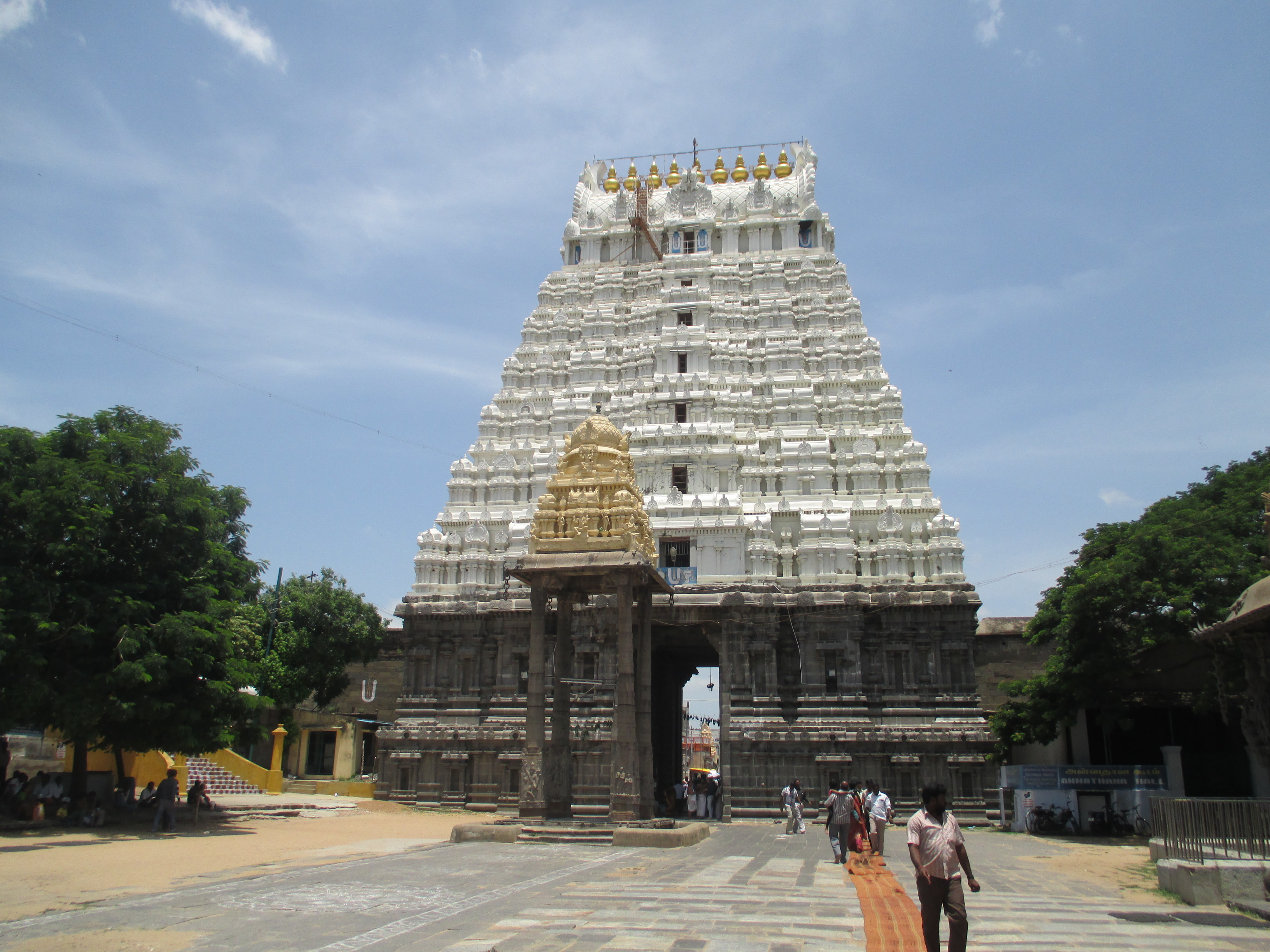 varadharaja Perumal temple